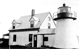 Hyannis, Massachusetts, Rear Range Light, Replacement Lantern Room